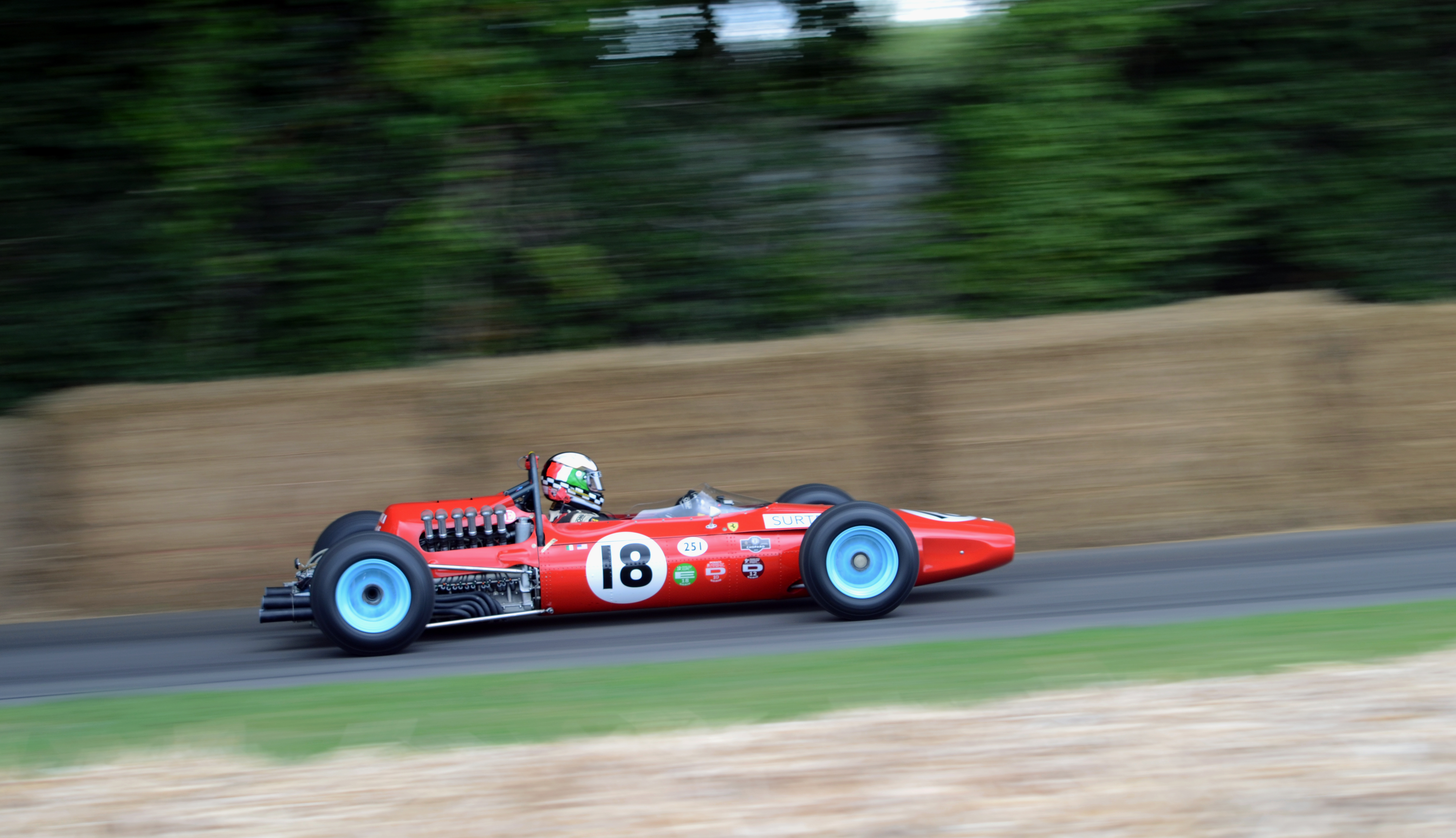 Ferrari 1512 s/n 0008 at 2017 Goodwood Festival of Speed. Driven by Joe Colasacco, but owned (and entered) by Lawrence (Larry) Auriana.[1]